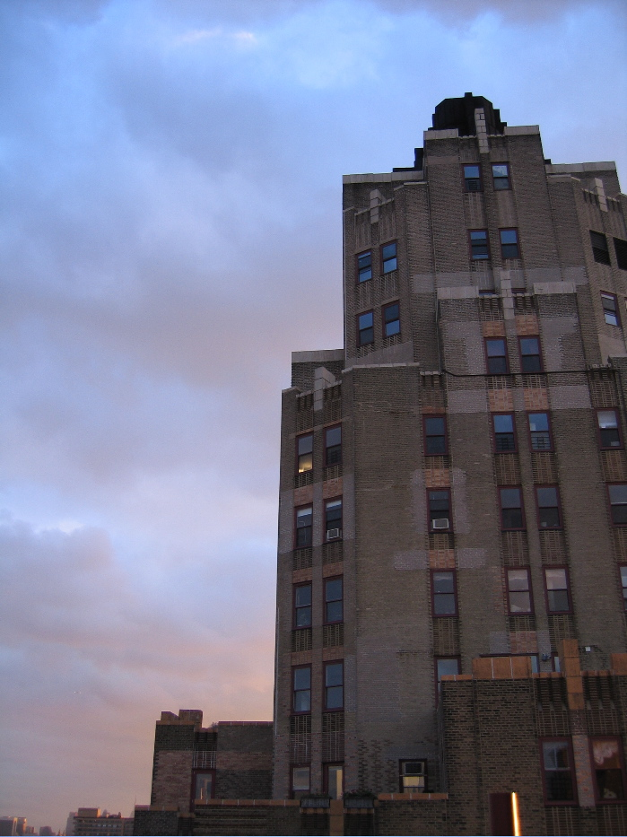 The Master Apartments at dusk.